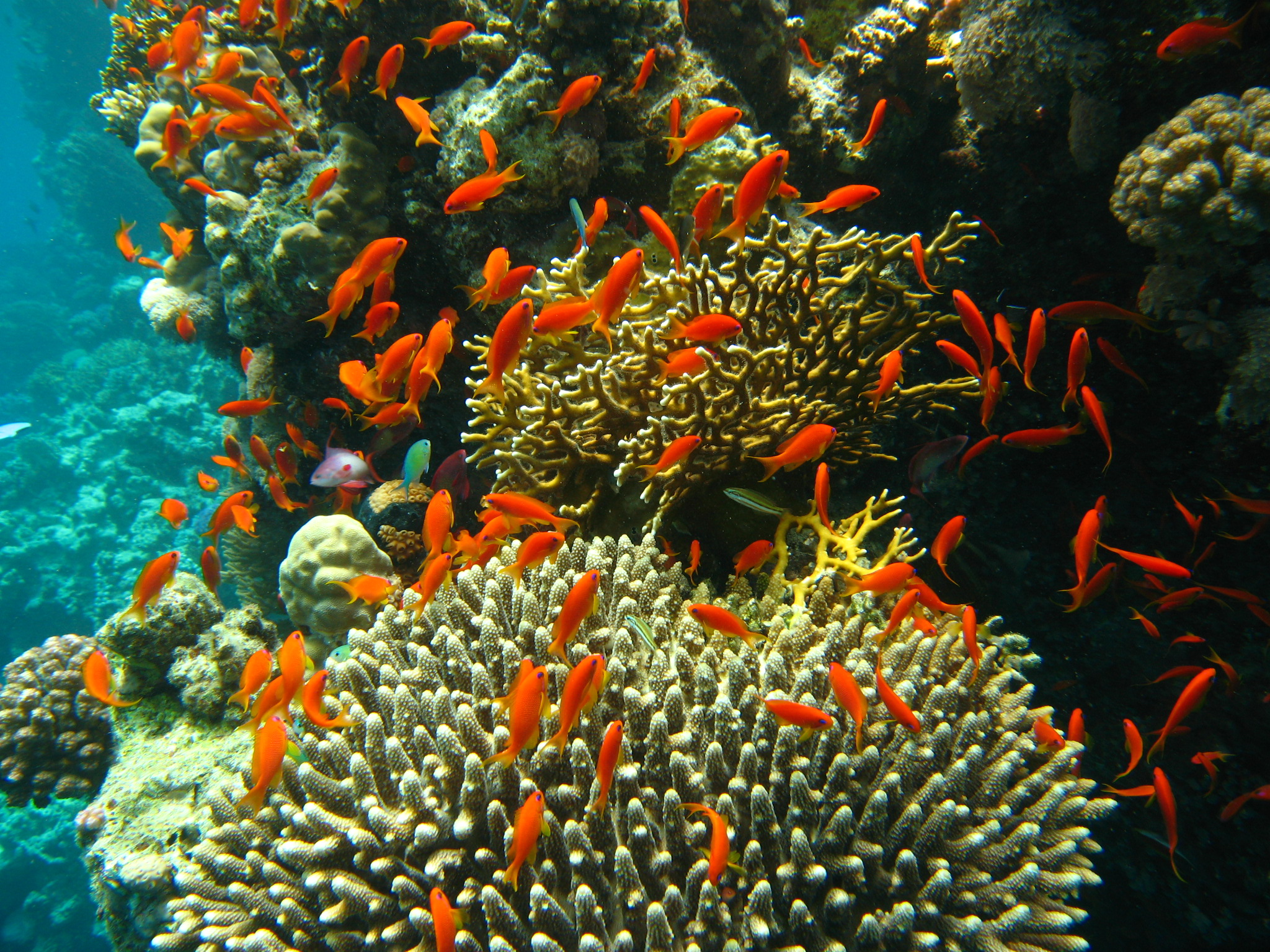 Port Ghalib Egypt